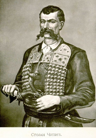 Stojan Čupić Српски (ћирилица): Стојан Чупић